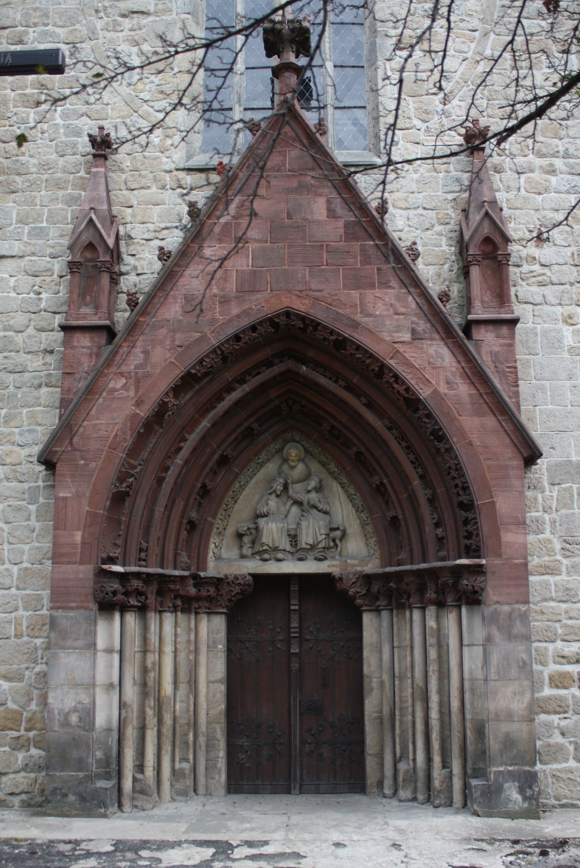 This photo of Lower Silesian Voivodeship was taken during Wikiexpedition 2013 set up by Wikimedia Polska Association.You can see all photographs in category Wikiekspedycja 2013.